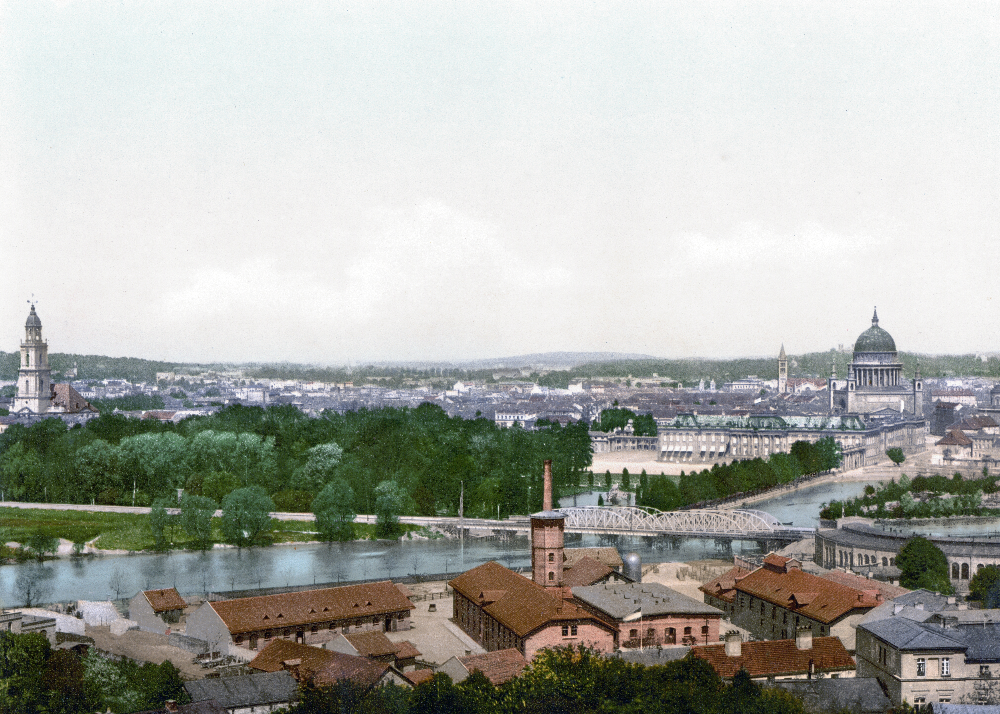 An old postcard of Potsdam (Germany) with the Stadtschloss, the St. Nikolaikirche, the Garnisonkirche and the church St. Peter und Paul. Trimmed at the lower edge and colors edited.